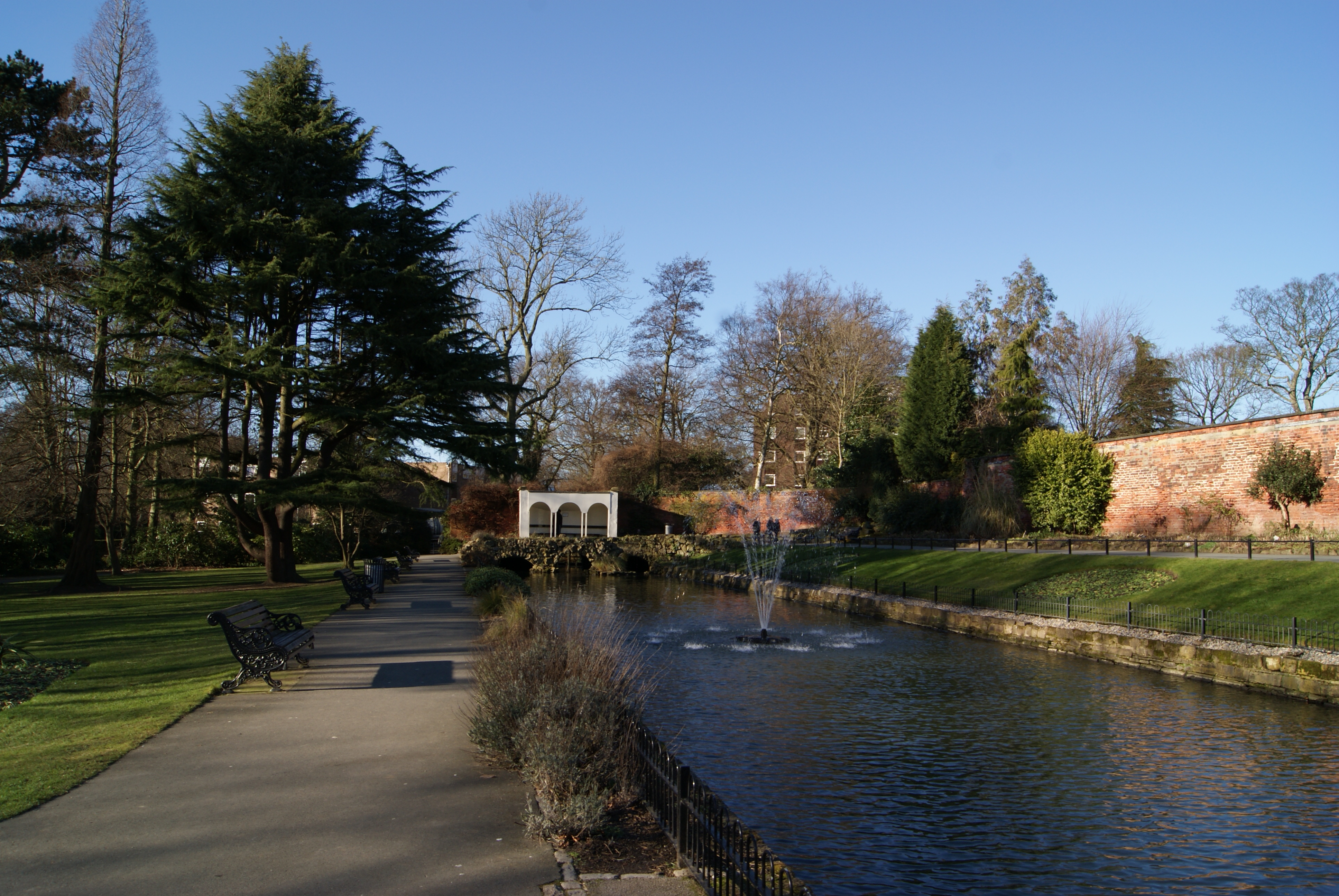 Canal Gardens in Roundhay, Leeds, West Yorkshire. The gardens look a little barren during the harsh winter of 2009-2010 (about six weeks of solid snow had only melted days before this picture was taken). Taken on the afternoon of Saturday the 30th of January 2010. (See File:Canal Gardens Aug 2007.JPG for a view of these gardens in the summer)